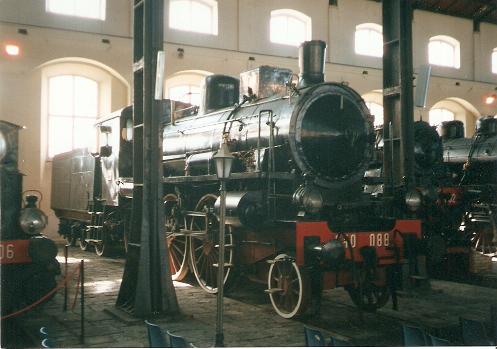 FS 640.088 in railway museum Pietrarsa